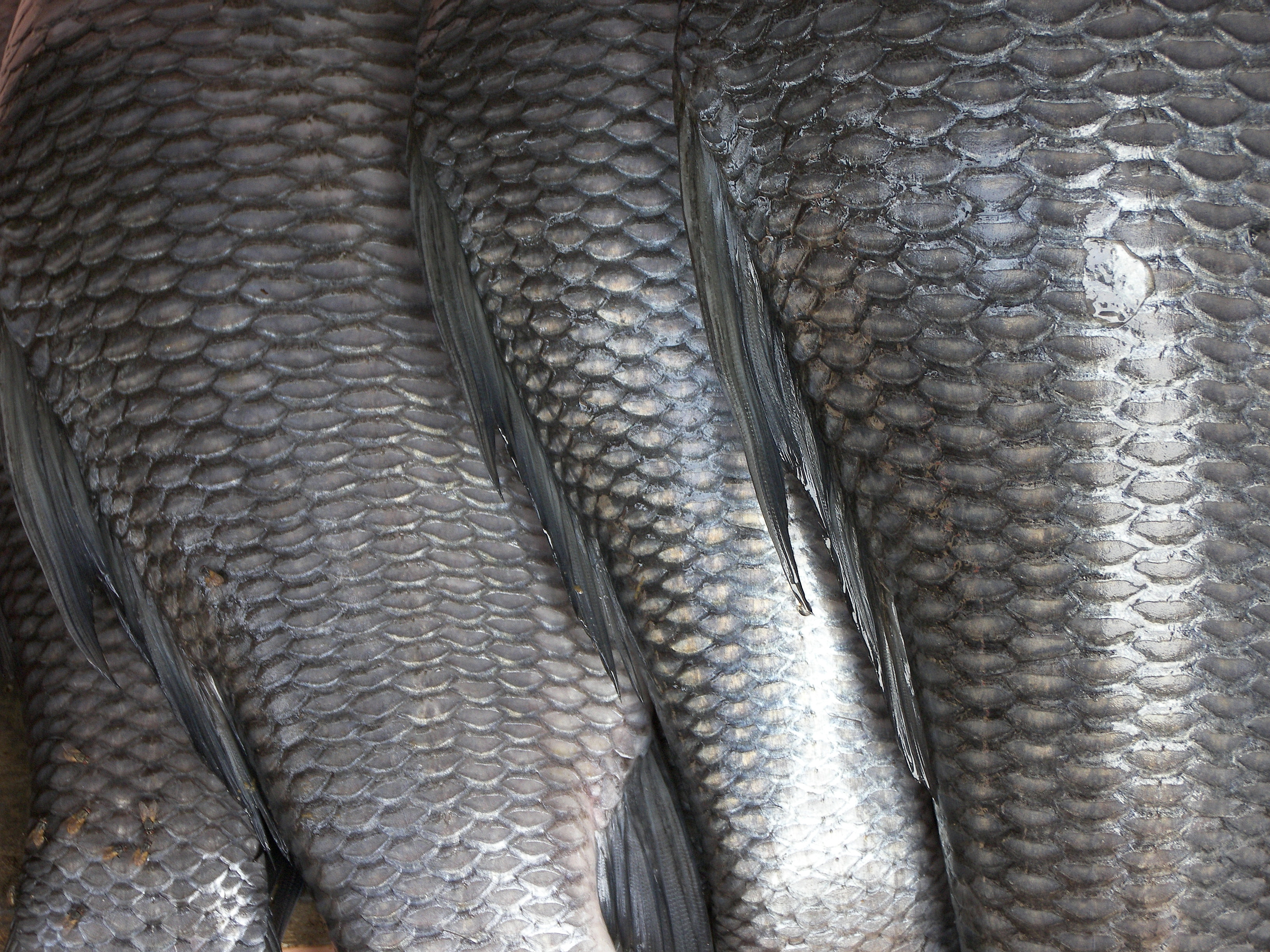 Rajesh Dangi,Bangalore, Rohu Fish Scales, HAL Market, Jun 2007